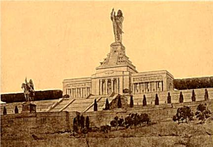 Detail of drawing of the proposed National American Indian Memorial, Staten Island, New York, USA.